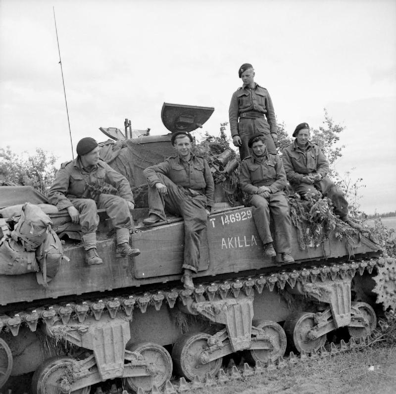 The crew of a Sherman tank named 'Akilla' of 1st Nottinghamshire Yeomanry, 8th Armoured Brigade, after having destroyed five German tanks in a day, Rauray, Normandy, 30 June 1944. The crew of a Sherman tank named 'Akilla' of 1st Nottinghamshire Yeomanry, 8th Armoured Brigade, after having destroyed five German tanks in a day, Rauray, 30 June 1944. Left to right: Sgt J Dring; Tpr Hodkin, Tpr A Denton; Tpr E Bennett; L/Cpl S Gould.